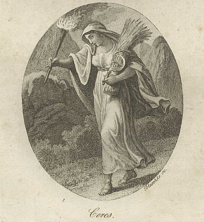 Ceres in search of her daughter proserpina. Engraving by Johann Blaschke, 1786.